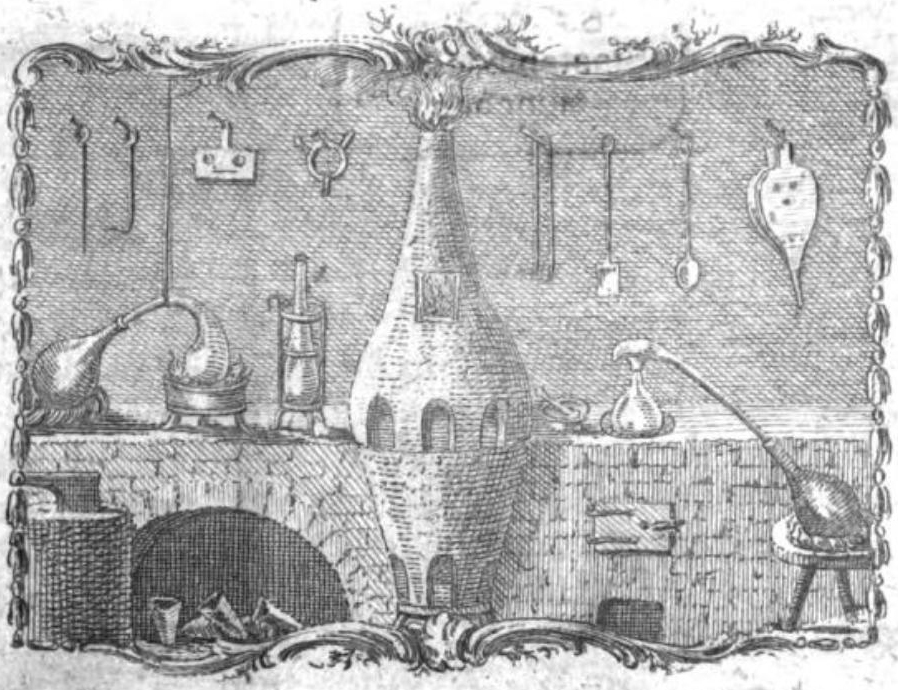 Plate from Carl Wilhelm Scheele's d. Königl. Schwed. Acad. d. Wissenschaft Mitgliedes, Chemische Abhandlung von der Luft und dem Feuer (1777)